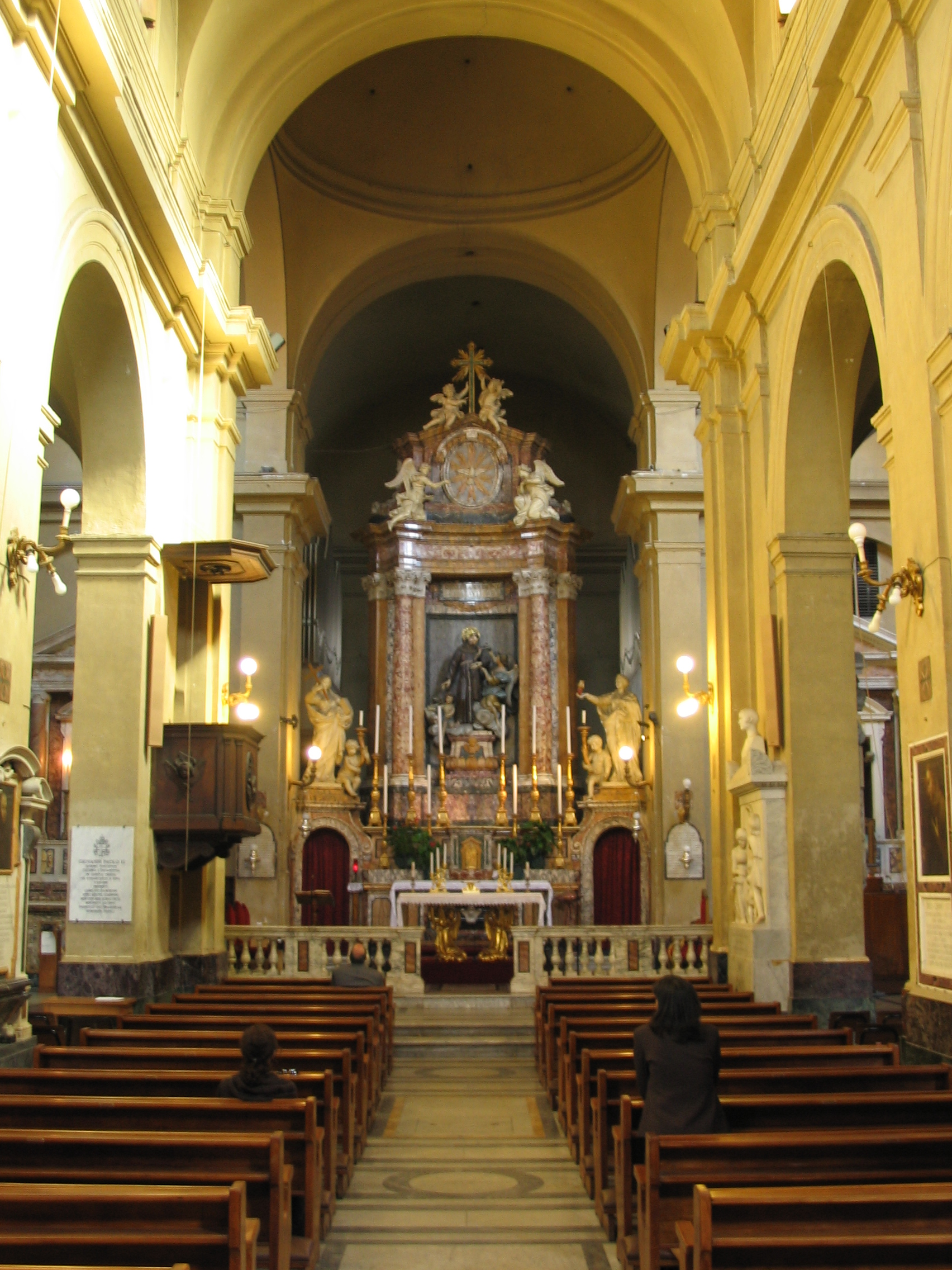 Interior of the church of San Francesco a Ripa, Trastevere, Rome, Italy.